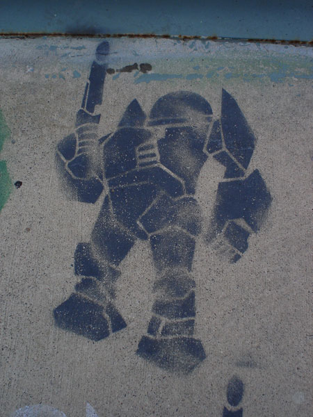 a picture of a stencil on a bridge. taken by CrazySunshine 02:58, 3 September 2005 (UTC)